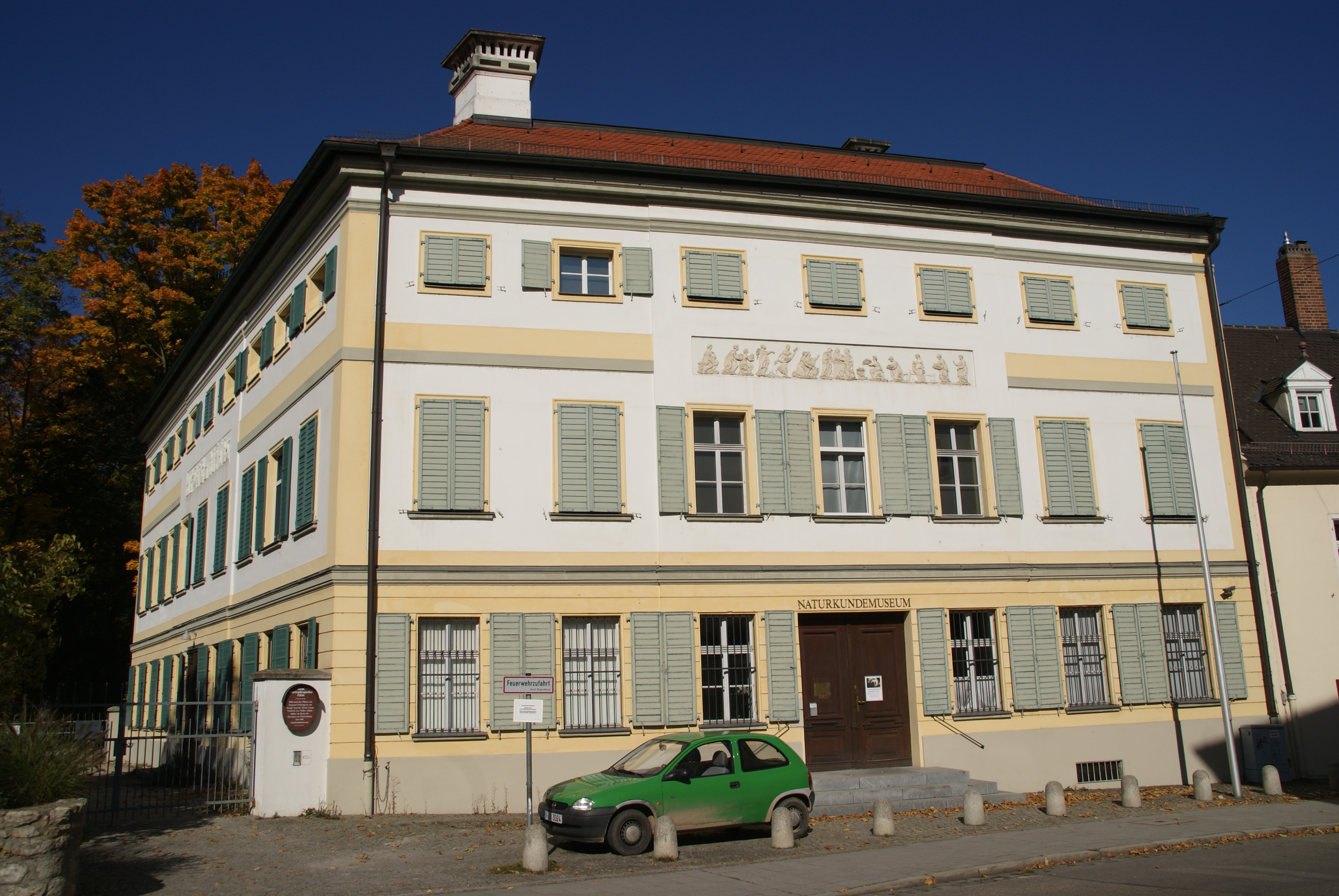 Natural History Museum Regensburg